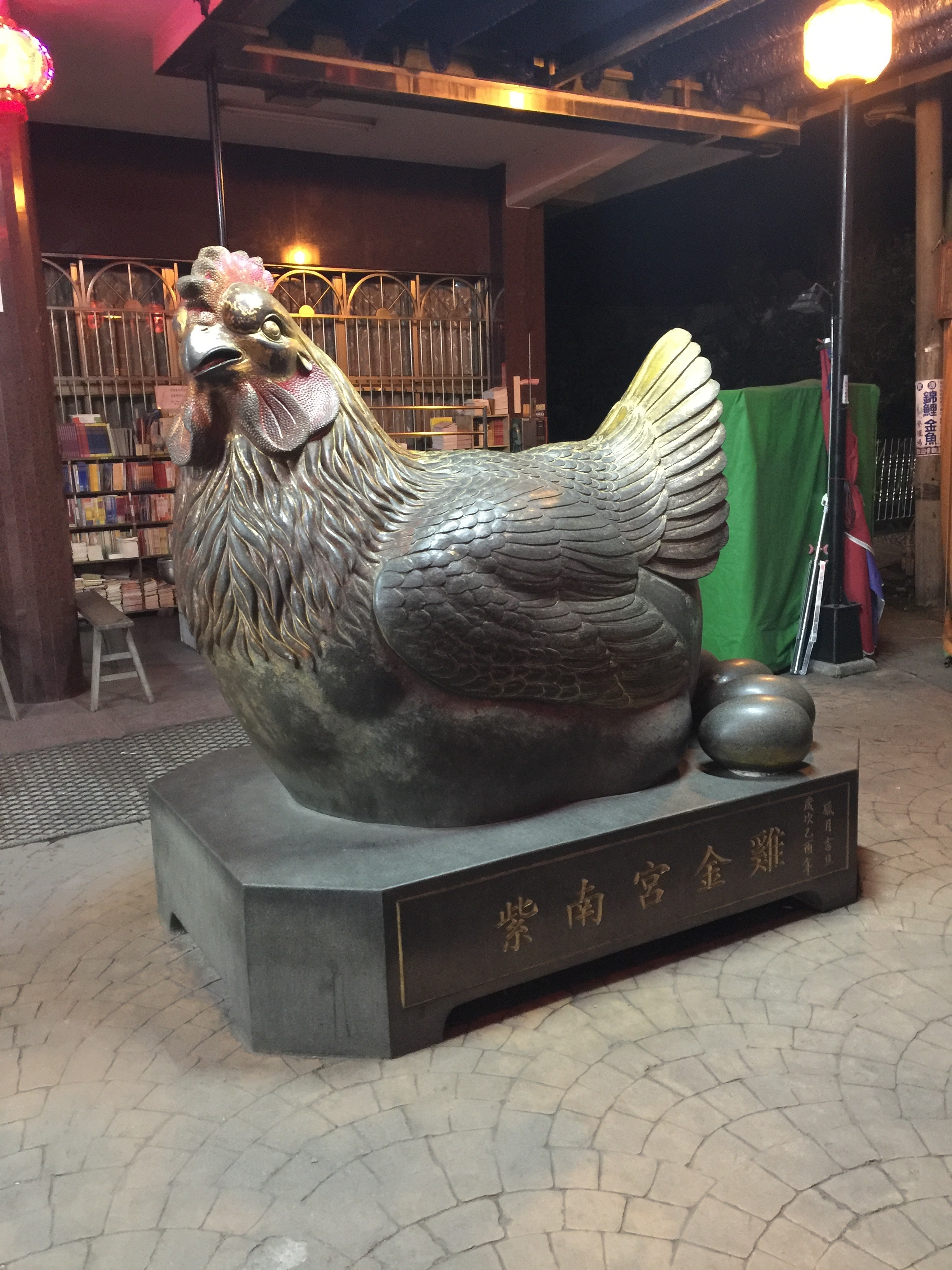 HL Golden Hen